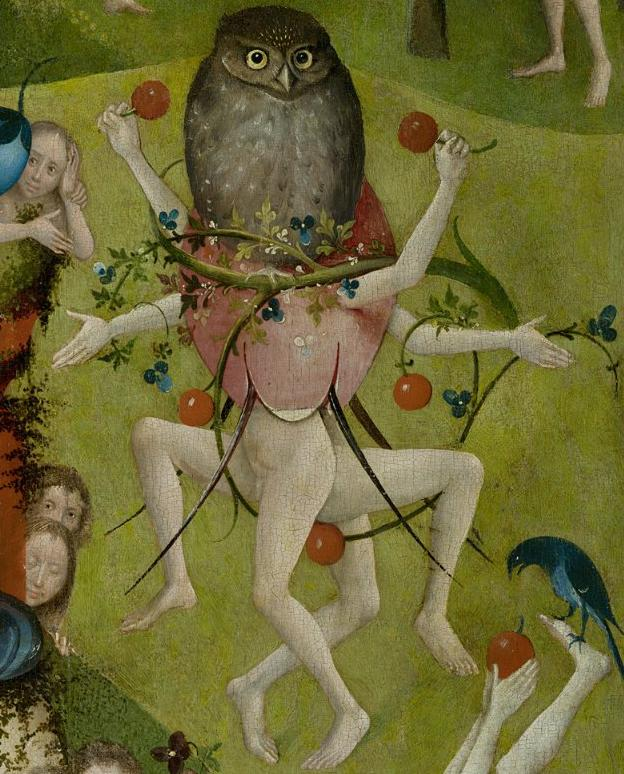 The Garden of Earthly Delights, central panel, detail.